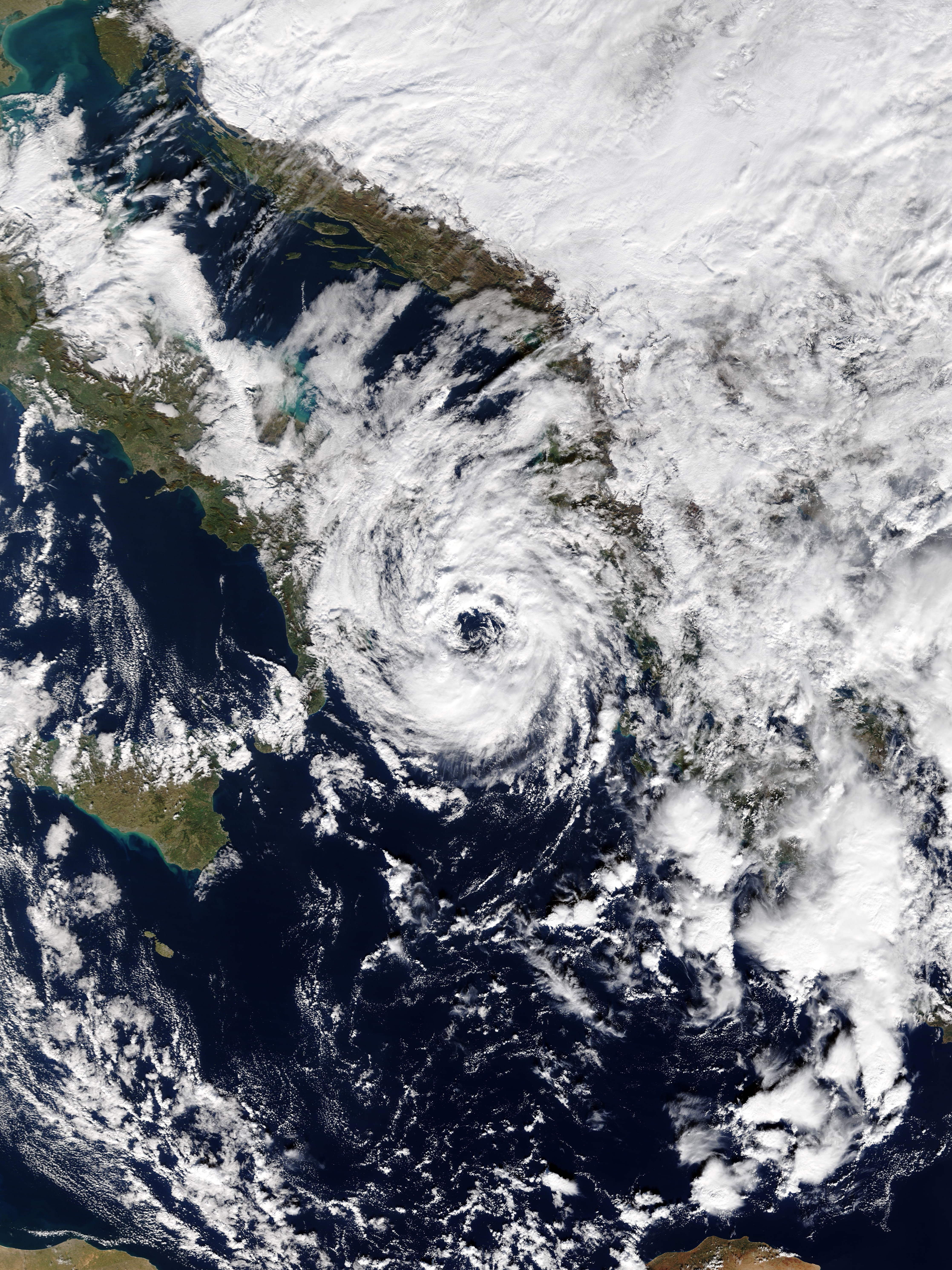 Numa, a Mediterranean tropical-like cyclone, displaying a distinct eye-like feature over the Ionian Sea on 18 November 2017.